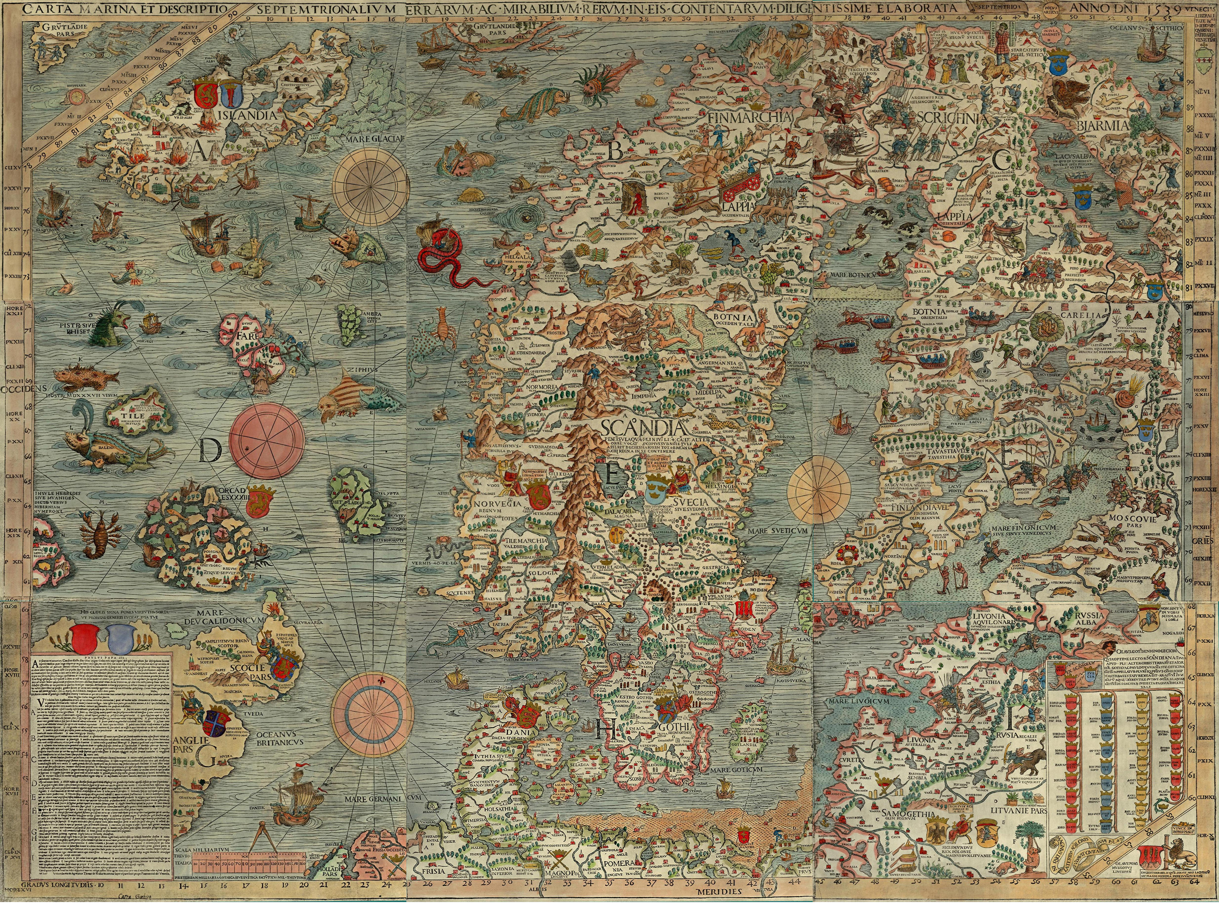 Carta marina, a wallmap of Scandinavia, by Olaus Magnus. The caption reads : A Marine map and Description of the Northern Lands and of their Marvels, most carefully drawn up at Venice in the year 1539 through the generous assistance of the Most Honourable Lord Hieronymo Quirino.